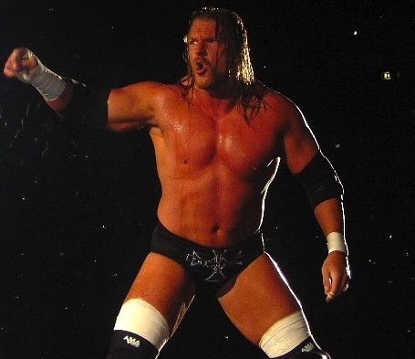 Triple H on WWE Wrestle Mania Revenge Tour in Milan (Italy)